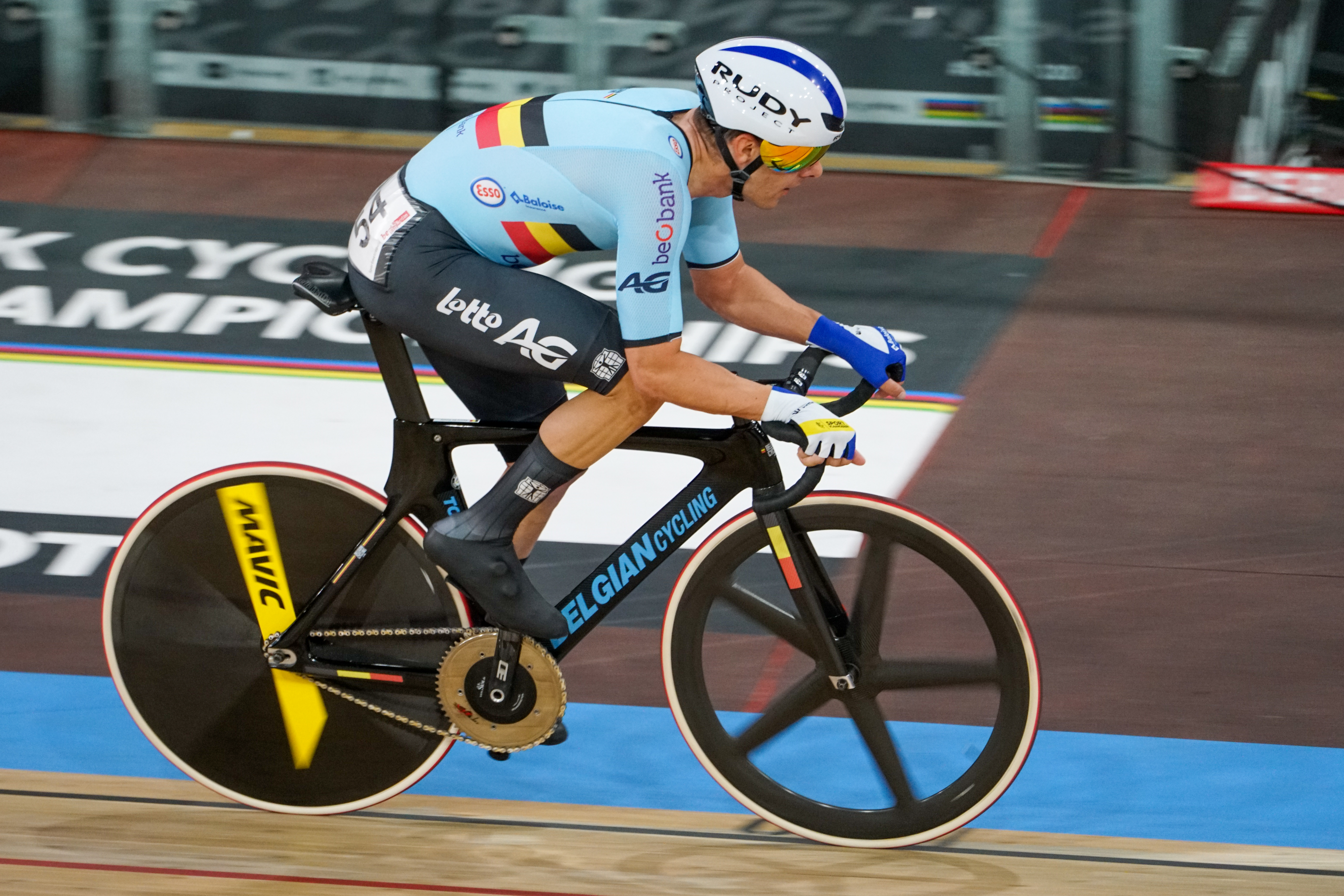 2020 UCI Track Cycling World Championships – Men's Points Race